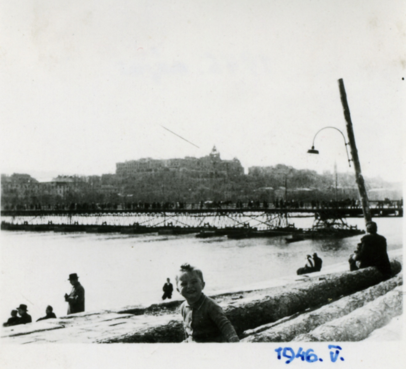 1946-05 Petőfi pontoon bridge (temporary), Budapest